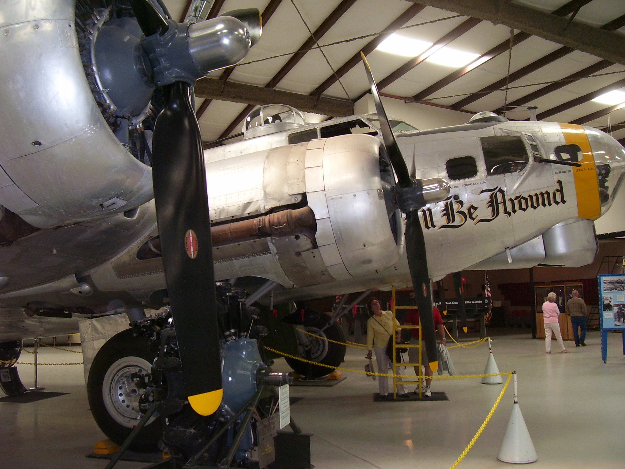 Displayed as 42-31892 of 390th Bomb Group. Pima Air & Space Museum, Tucson USA - Arizona, February 18 2007.